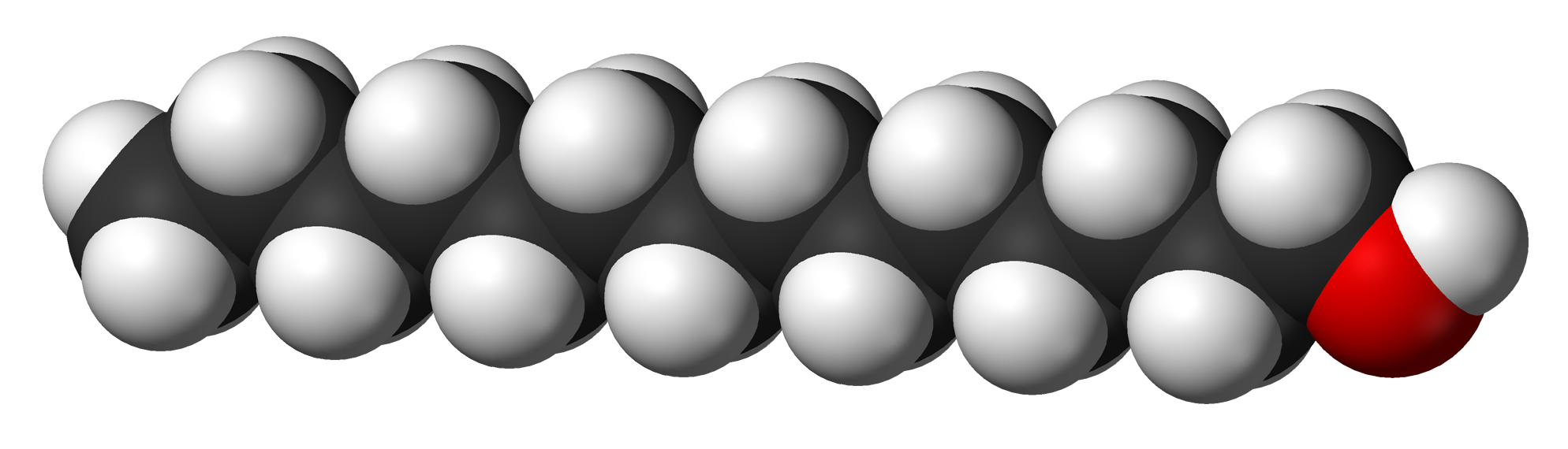 Ball and stick model of the myristyl alcohol molecule.